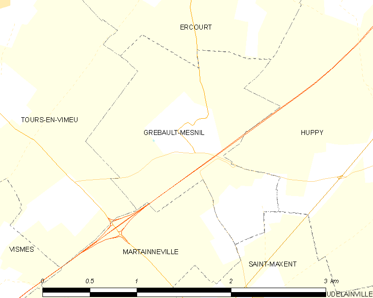 Map of French municipality Grébault-Mesnil